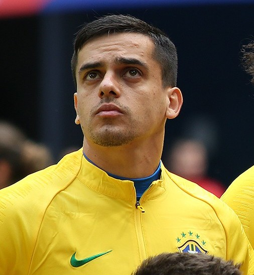 Marcelo Vieira, Fagner Conserva Lemos